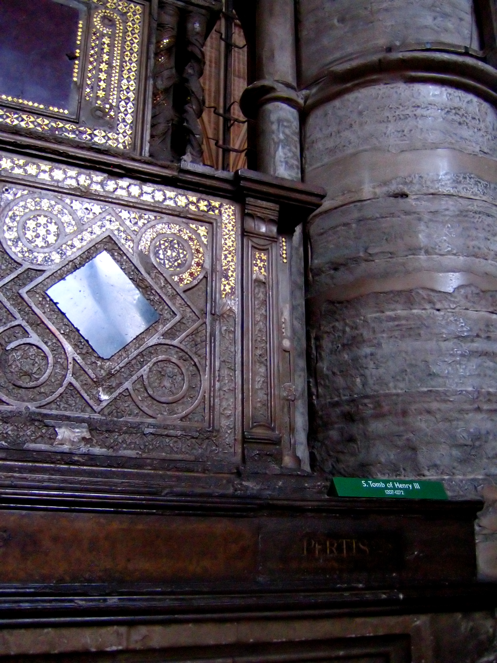 Westminster Abbey, Tomb of Henry III. The king imported Roman stoneworkers from the great family of the Cosmati to make his tomb, which is consequently the most Roman-looking thing in the abbey.